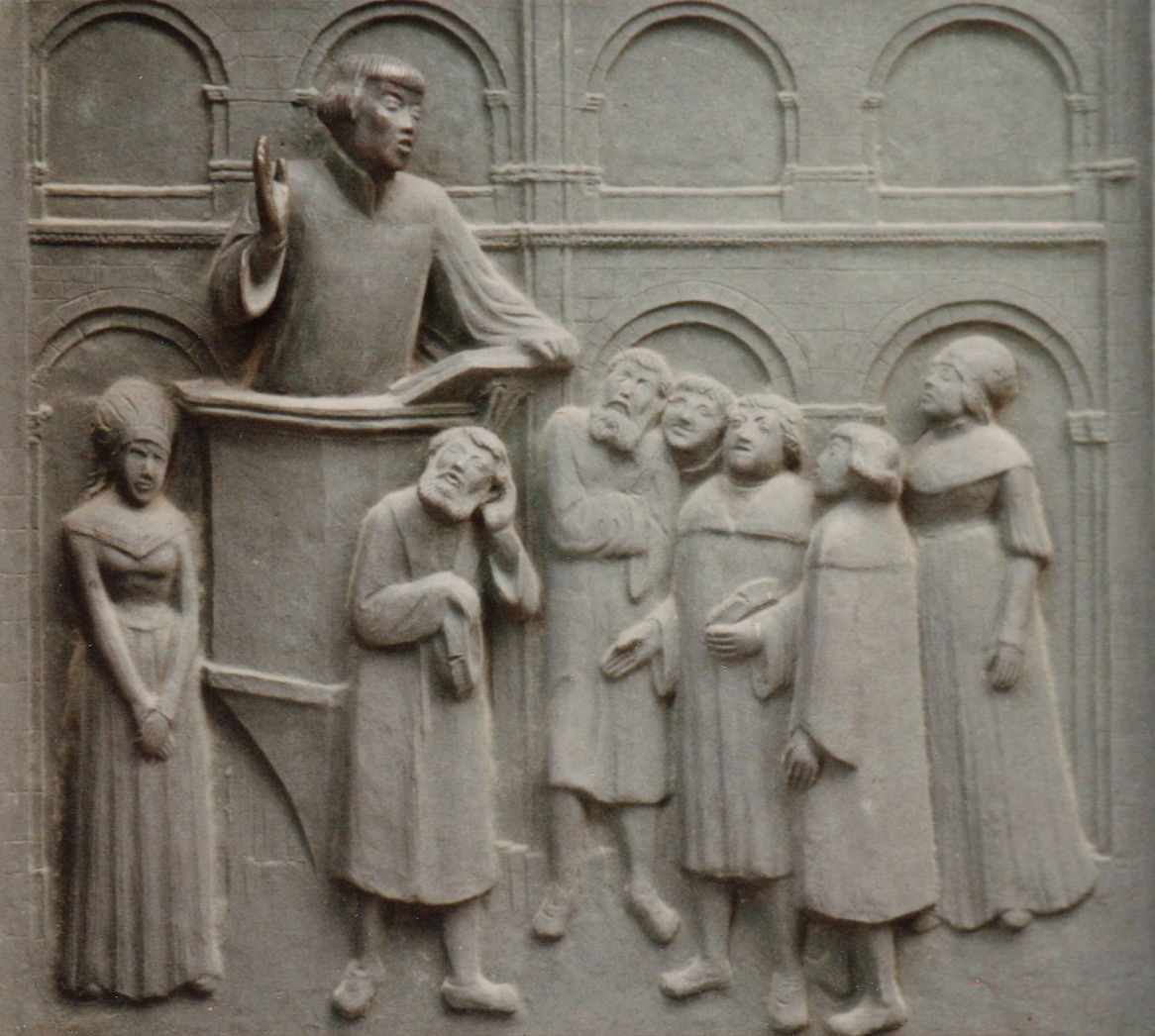 Zwingli on the bronze doors by Otto Münch (1935) on the Grossmünster in Zürich, Switzerland.